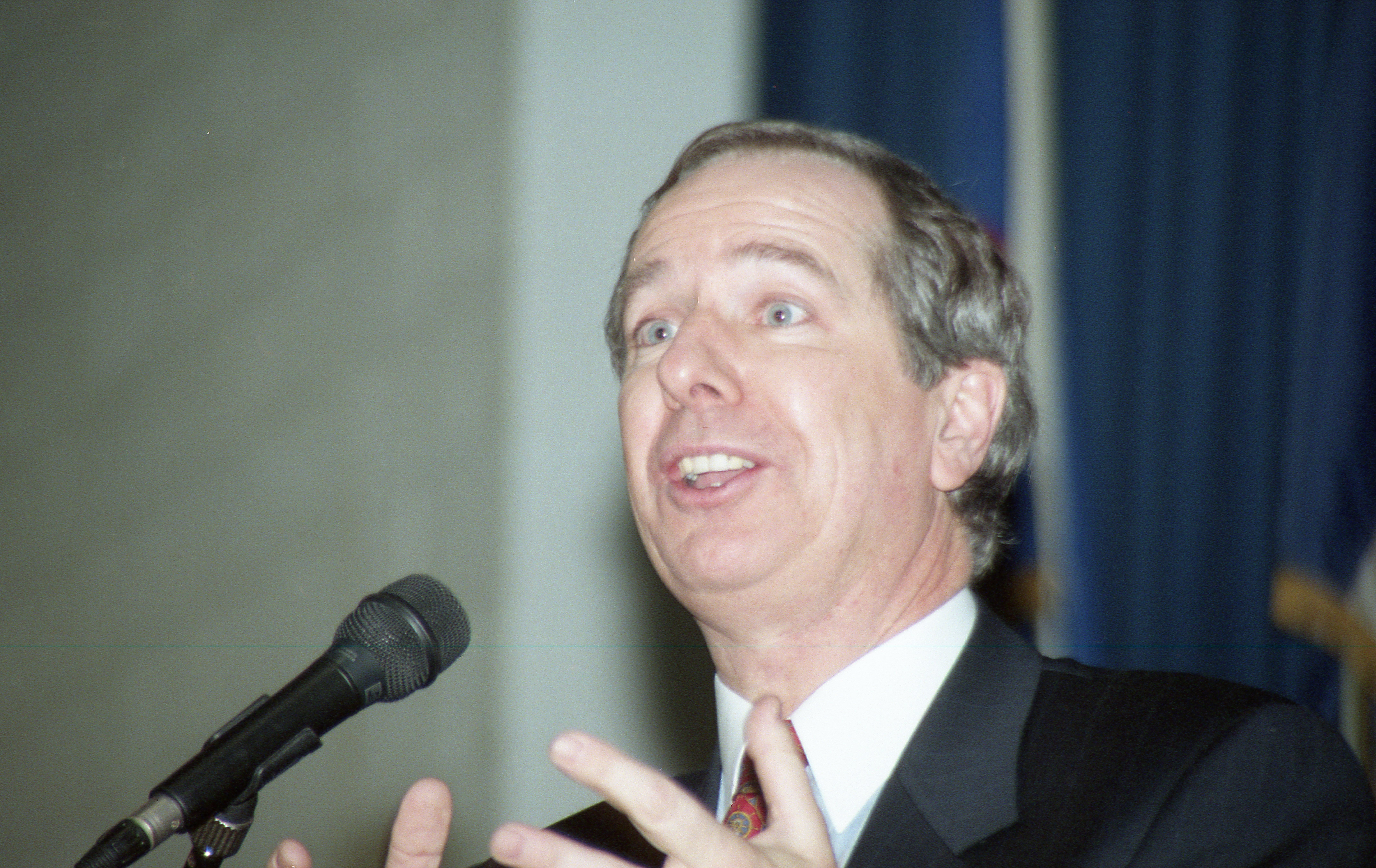 Daniel Johnson, former premier of Quebec, gets National Leadership Award award at Our Lady of Lourdes Catholic High School (Guelph, Ontario).